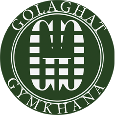 Golaghat Gymkhana Logo অসমীয়া: Golaghat Gymkhana Logo